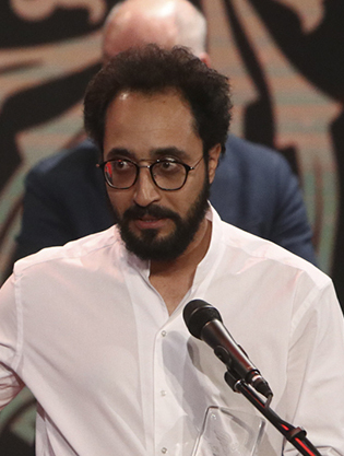 Closing ceremony of the 38th annual Fajr Film Festival at the Milad Tower conference hall on February 11, 2020, in Tehran, Iran